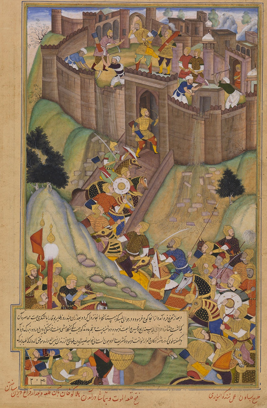 Assassin fortress of Alamut. Persian miniature.